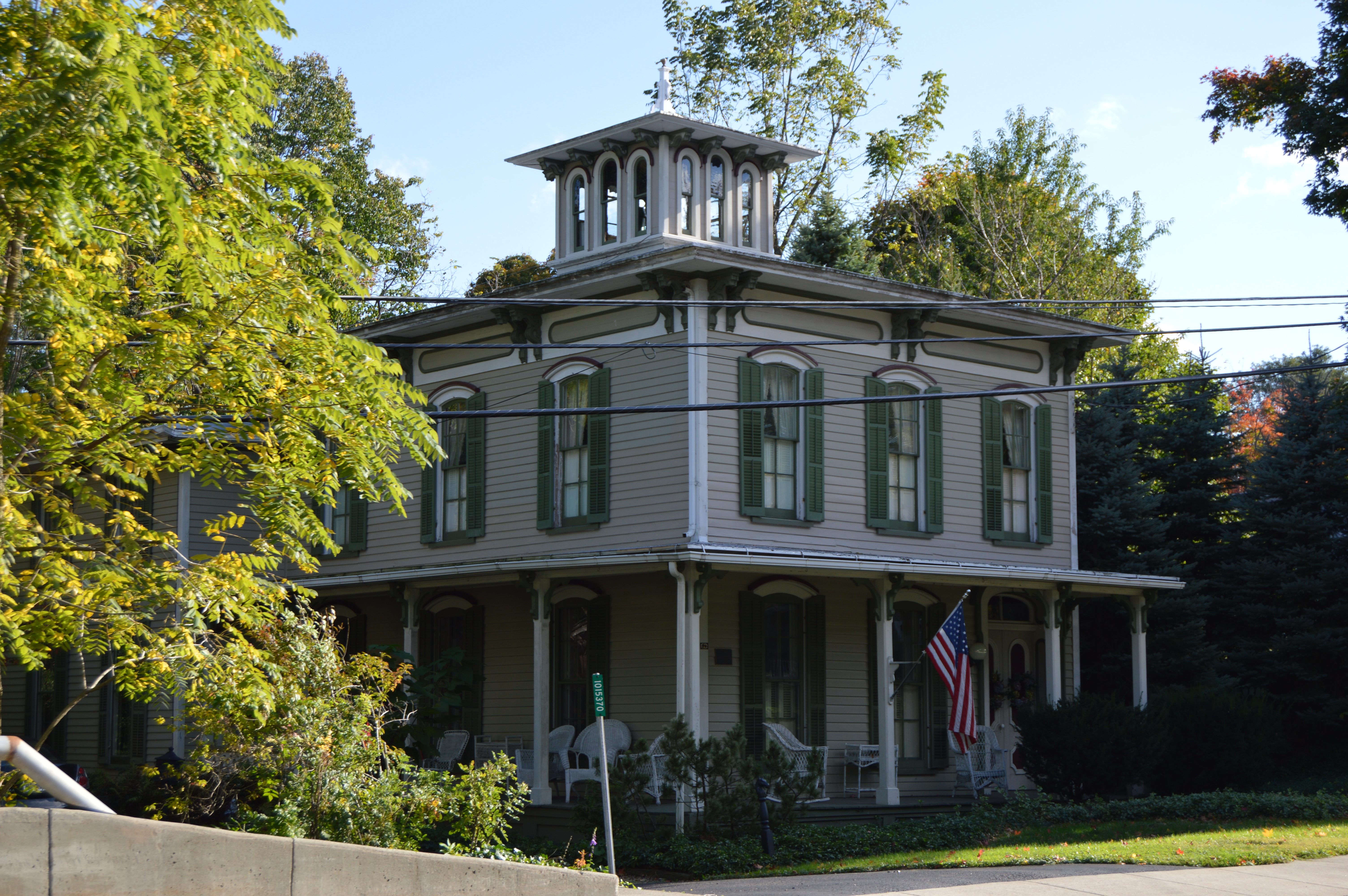 Front and eastern side of the L. Bliss House, located at 90 W. Main Street (U.S. Route 20) in Westfield, New York, United States. Built in 1853, it is listed on the National Register of Historic Places.